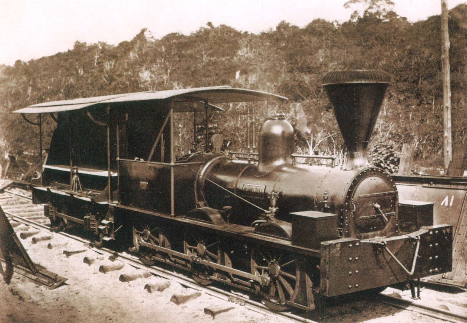 The locomotive Pequenina (Little one) in Bahia province (Brazil), c.1859.